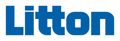 Logo of Litton Industries Originally uploaded as 1LUT96BL.gif on 20 May 2006 by Yiddophile with comment "The official Litton logo, as saved from Litton's LAN back in 1995-2001 when I worked there. Believe fair use applies for identification of the (now gone) company." This new version is in the PNG format and is exactly the same quality as the original but with a smaller file size.